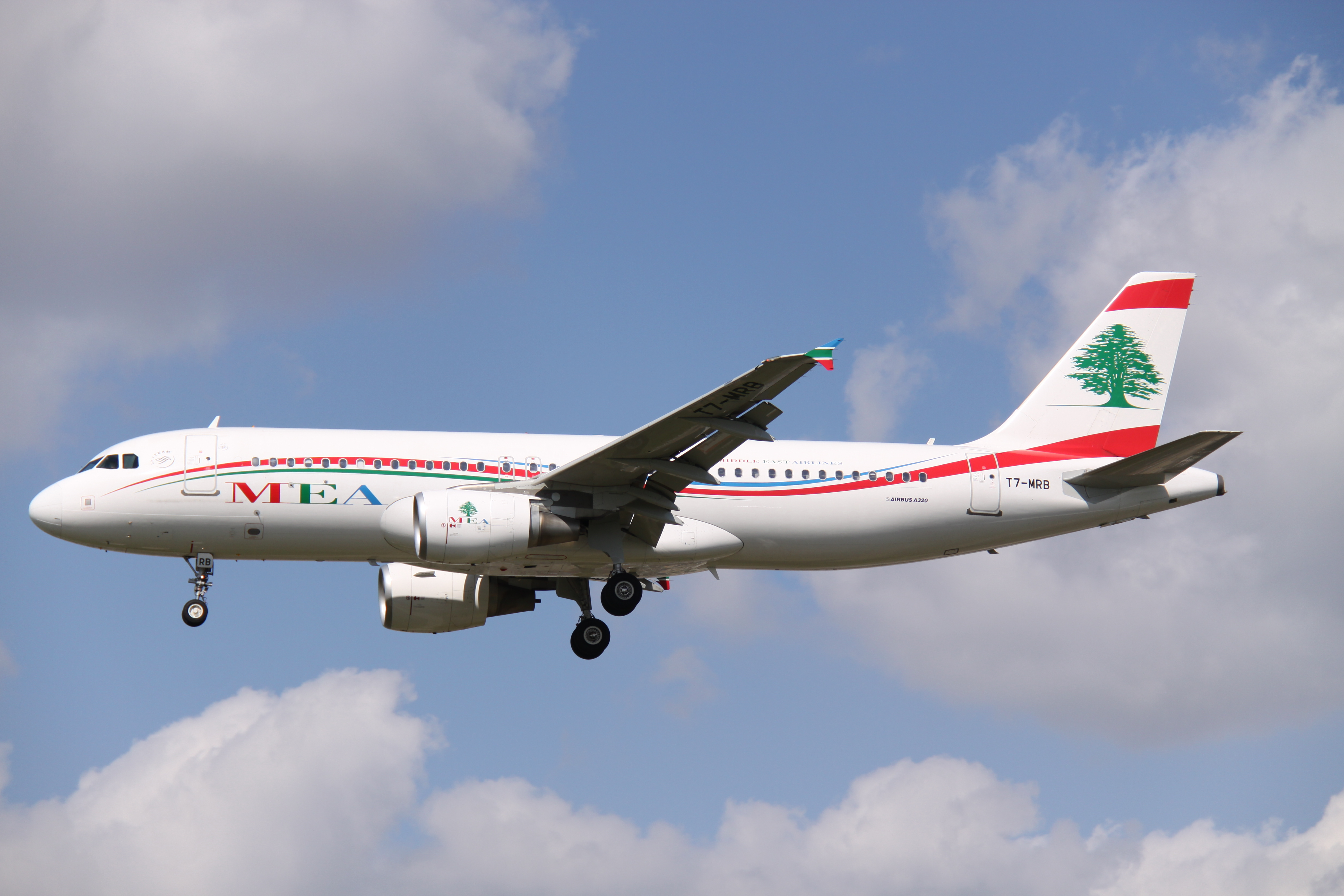 At London Heathrow